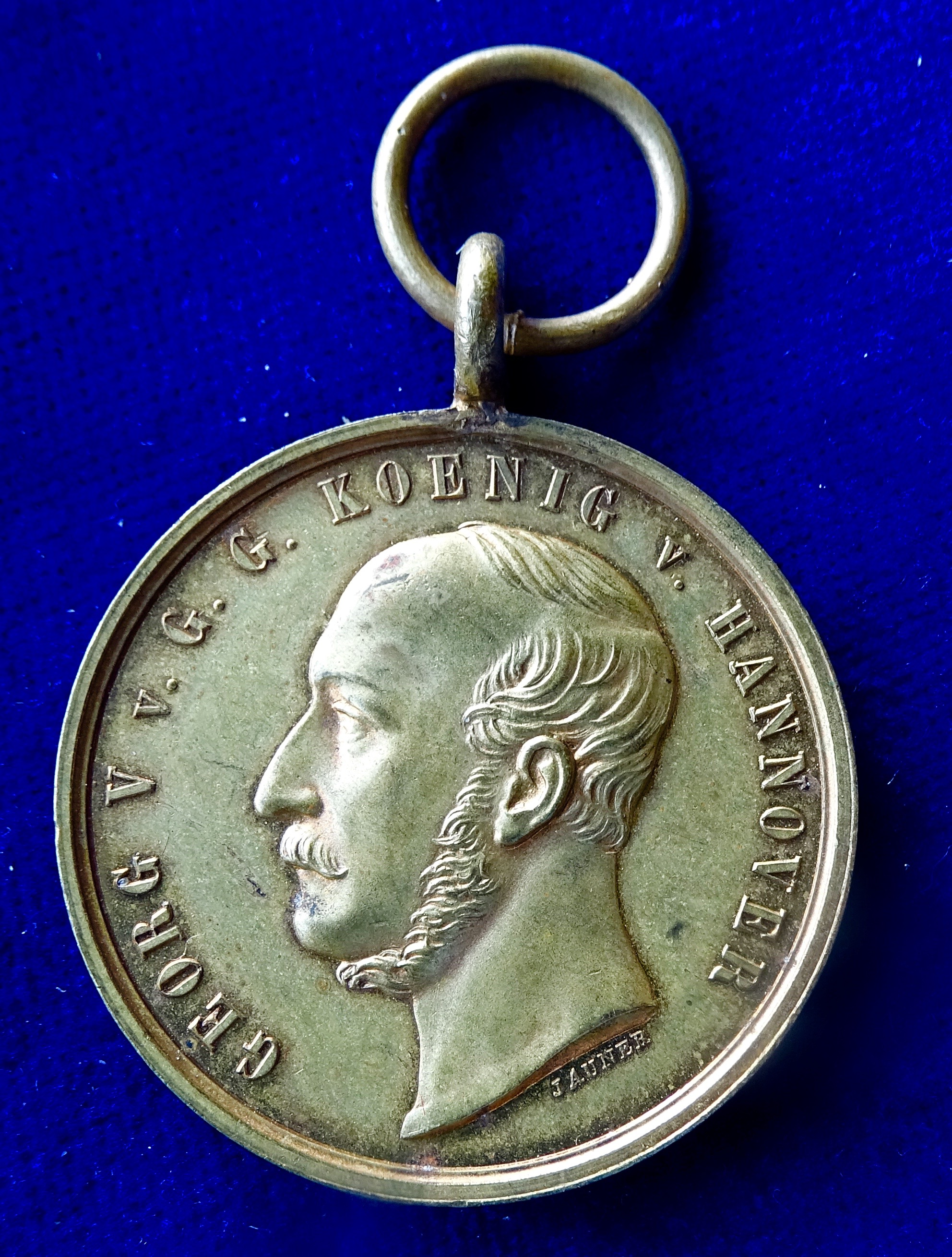 Gilt bronze, d. = 36 mm. George V, King of Hanover, 1851-1866 He was the grandson of King George III of Great Britain. As a legitimate male-line descendant of George III, he remained a member of the British Royal Family, and second in line to the British throne, until the birth of Queen Victoria's first child, Victoria, Princess Royal, in 1840. Contrary to the wishes of the parliament, Hanover joined the Austrian camp in the war. As a result, the Prussian army occupied Hanover and the Hanoverian army surrendered on 29 June 1866, the King and royal family having fled to Austria. The Prussian government formally annexed Hanover on 20 September, but the deposed King never renounced his rights to the throne or acknowledged Prussia's actions. From exile in Gmunden, Austria, George V appealed in vain for the European great powers to intervene on behalf of Hanover. Head l., around: "GEORG V v. G. G. KOENIG v. HANNOVER"/3 lines between 2 laurel branches: "LANGENSALZA 27. JUNI 1866.". Edge letttering: "C. RÖHRS". v. Heyden 235. Medallist: (Heinrich) Jauner, 1833 Wien - 1912 Vienna, Austria. Condition: UNCIRCULATED.